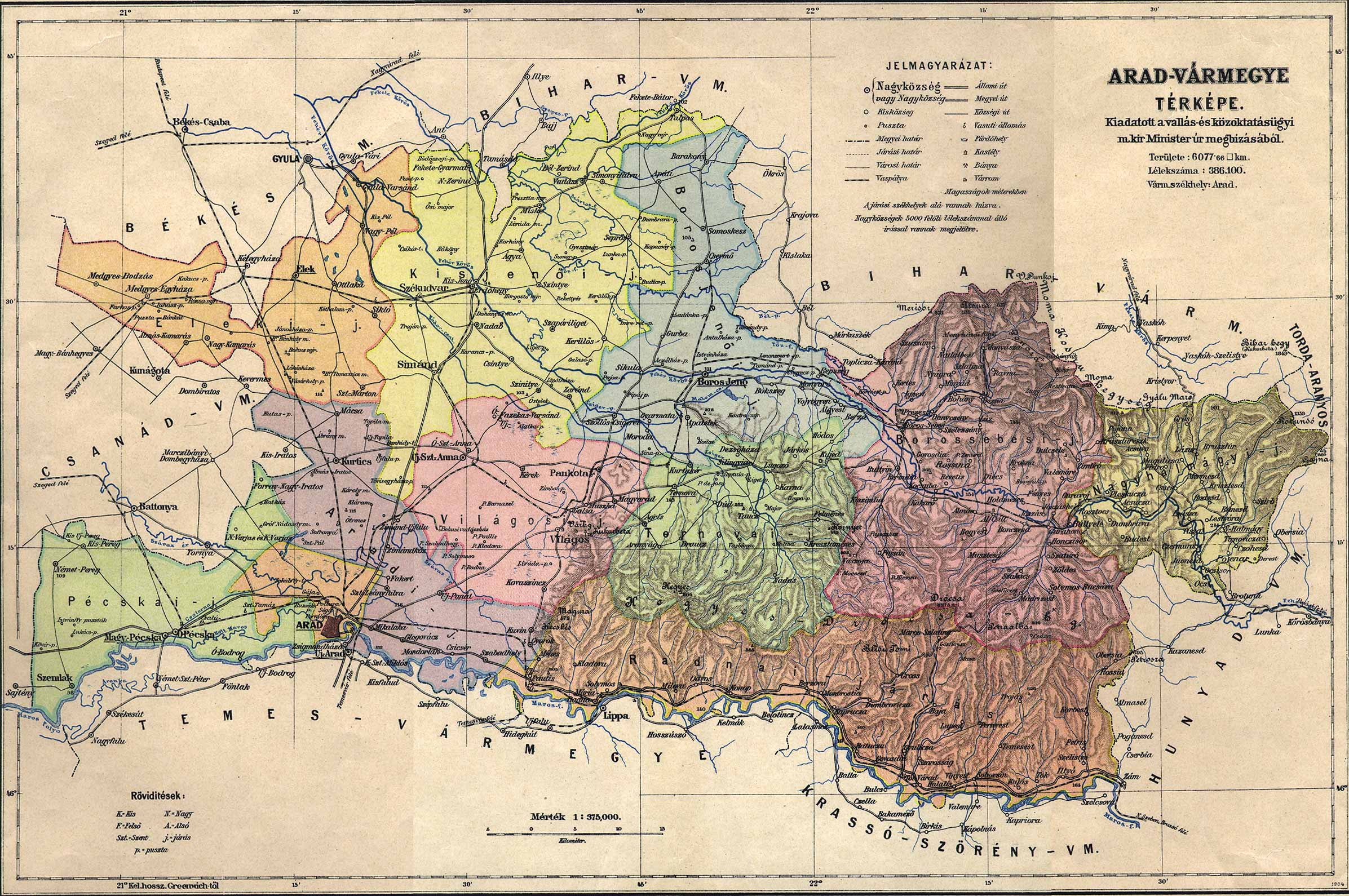 Administrative map of the county of Arad in the Kingdom of Hungary